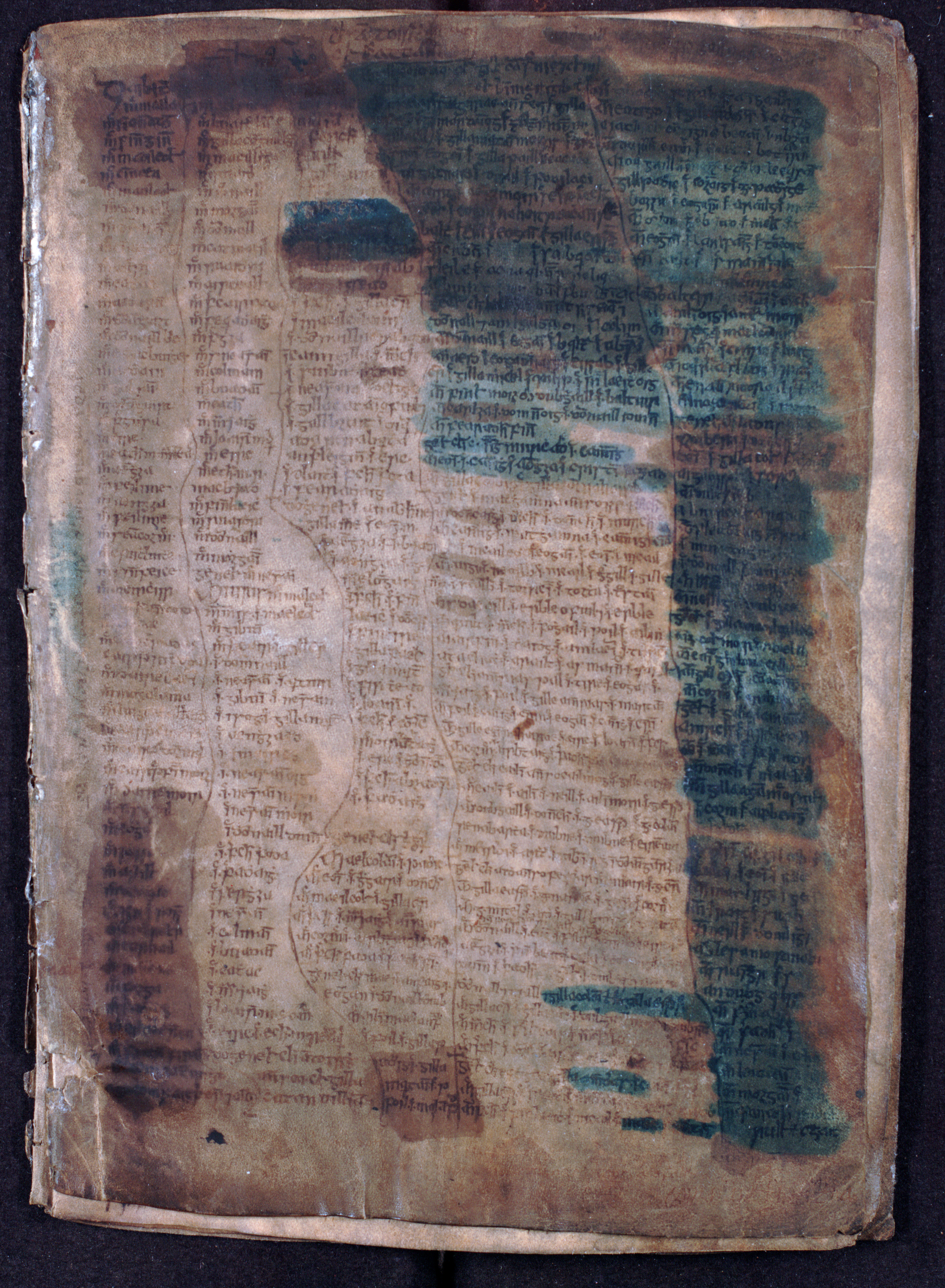 A photo of the recto of folio 1, of the MS 1467.